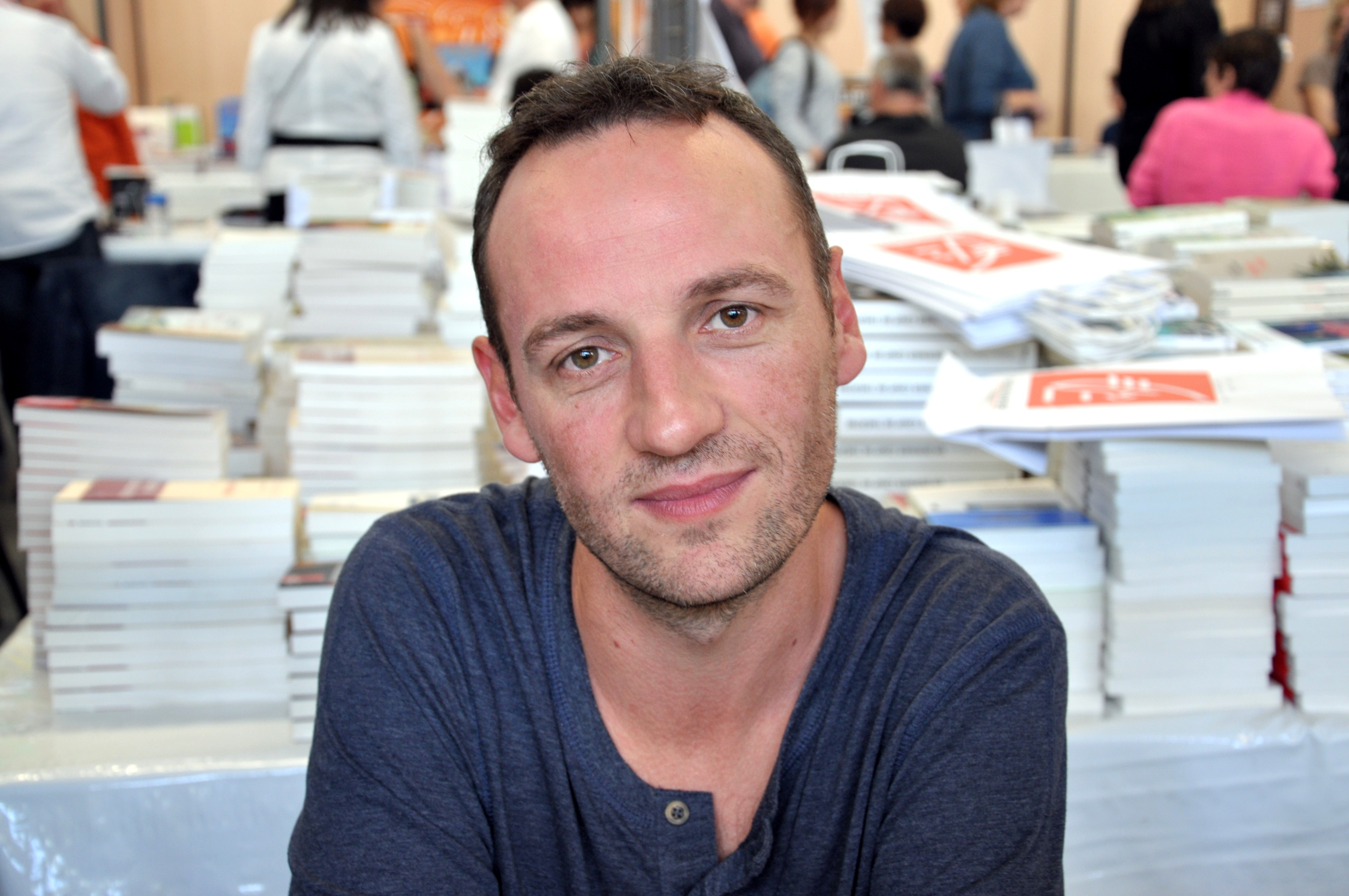 François Bégaudeau at the 2012 Mouans-Sartoux Literature Festival.